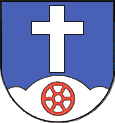 Coat of Arms of Kreuzebra